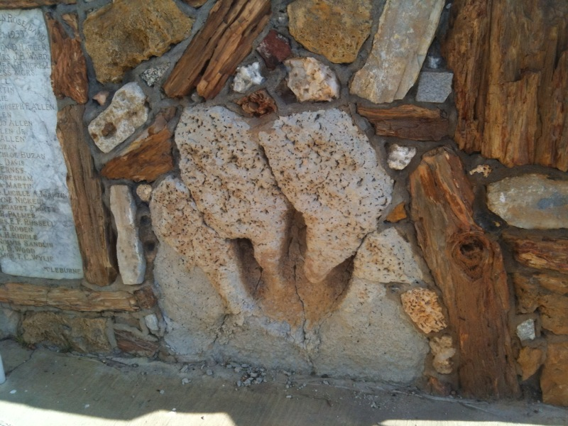 Photo of dinosaur footprint on lawn of Somervell County, Texas courthouse.